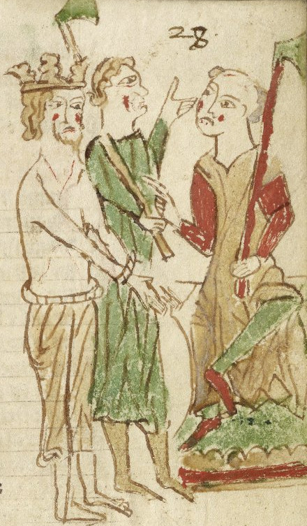 A thirteenth- or fourteenth-century depiction of Edmund, King of East Anglia (died 869) being brought bound before Ívarr (died 869/870?), as it appears on folio 28r of Rylands French MS 142.